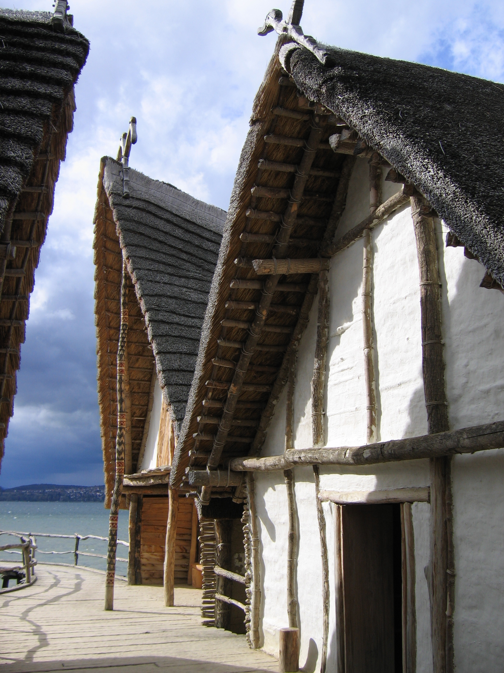 Germany - Baden-Württemberg - Bodenseekreis (district) - Uhldingen-Mühlhofen: Pfahlbaumuseum Unteruhldingen (Stilt house museum)